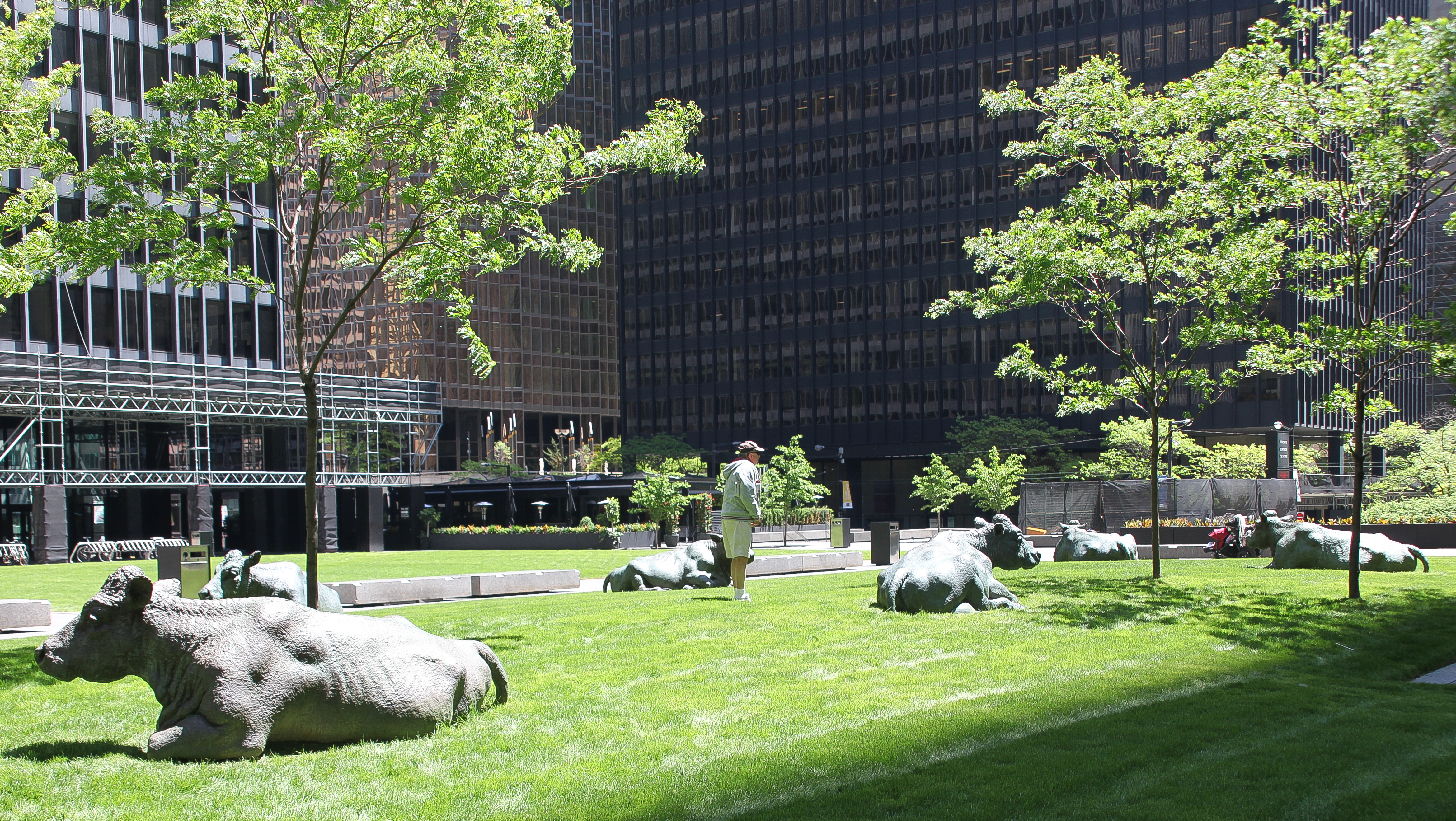 Sculpture "The Pasture" in Dominion Centre, sculpted by Joe Fafard. DETAIL SEE NEXT PHOTO